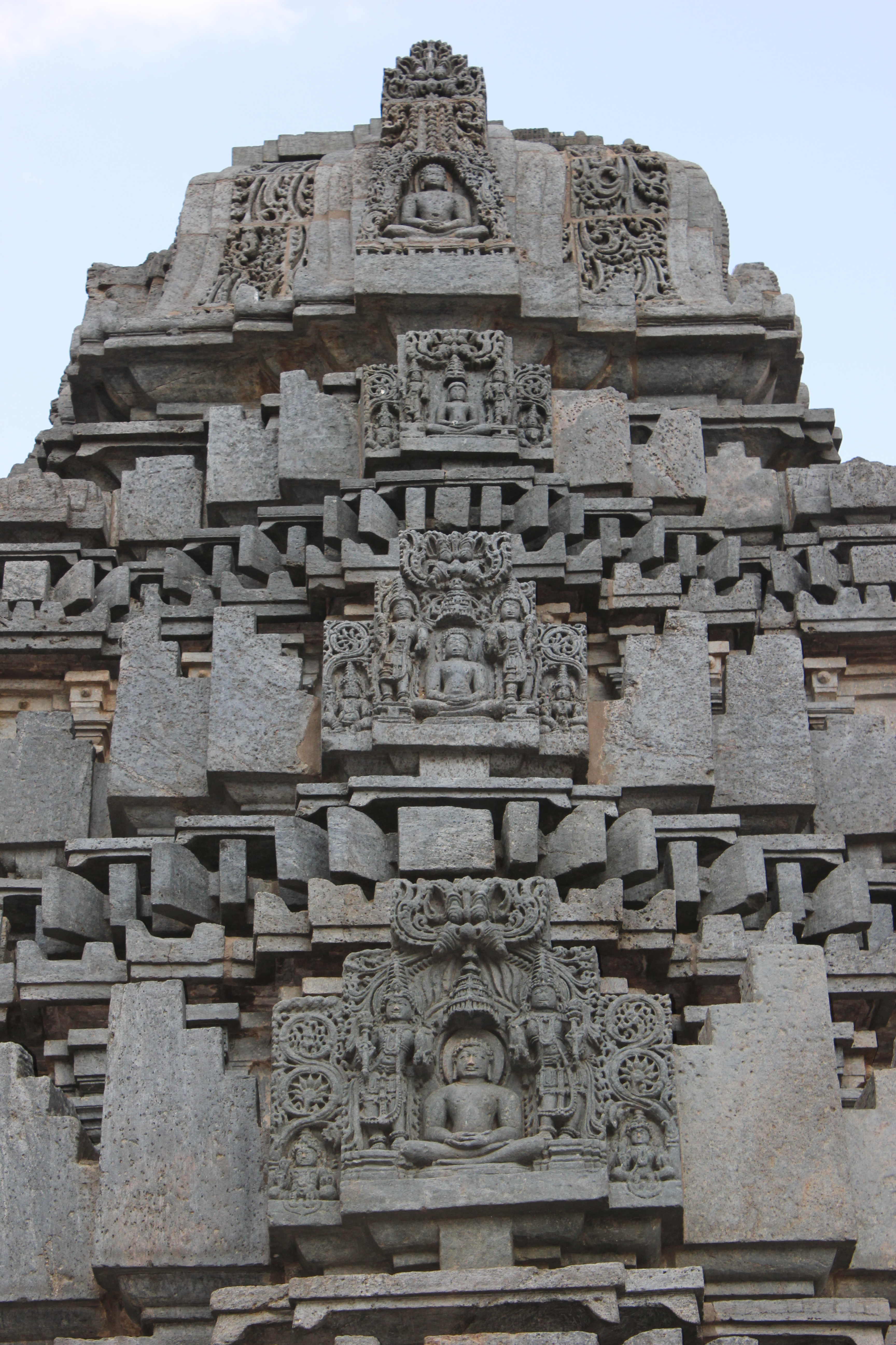 This photograph was taken by self (Dinesh Kannambadi) at the Akkana Basadi in Shravanabelagola, Hassan district, Karnataka state, India. The Basadi was built in 1182 AD during the rule of the Hoysala Empire King Veera Ballala II.